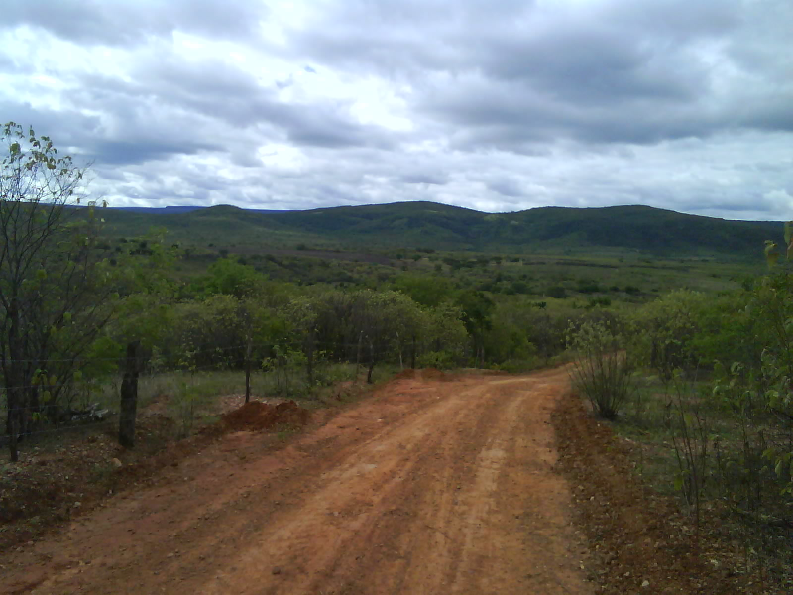 Semiarid region of Brazil with Caatinga as the main biome, Pernambuco, Moreilândia.